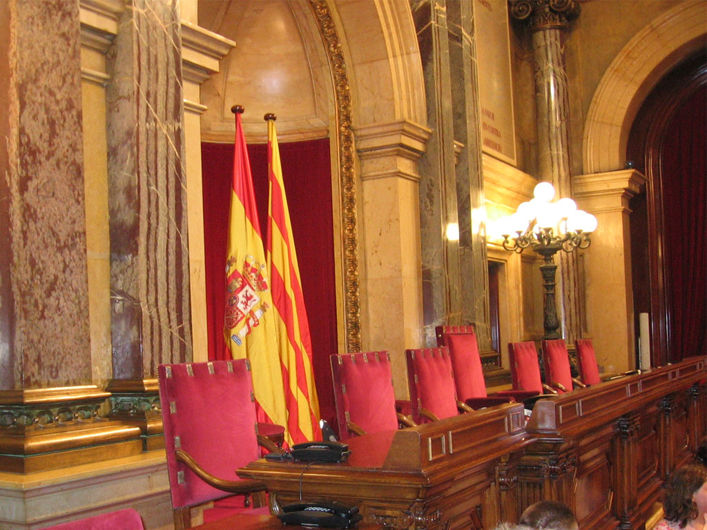 Presiding Board of the Parliament of Catalonia.